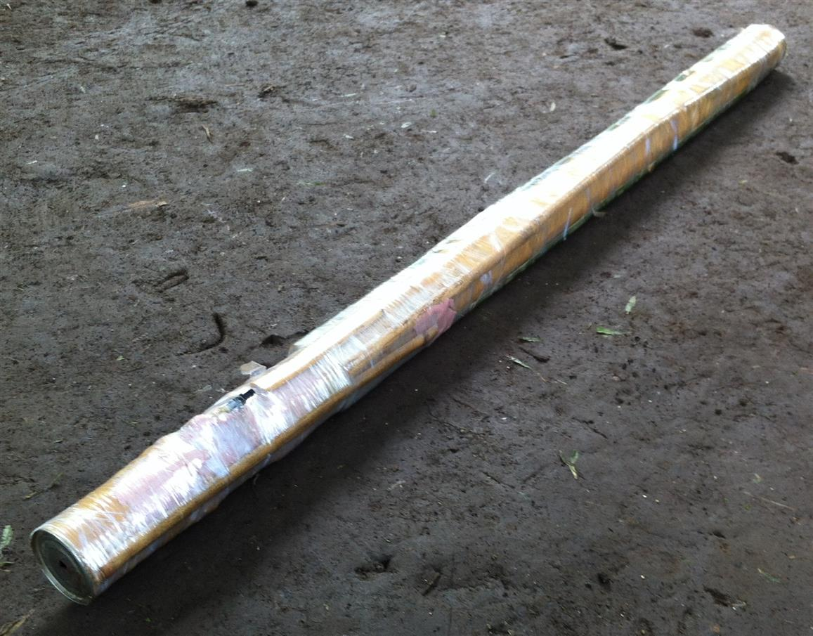 It is an example of boga. This device is made of tin cans binded with epoxy at wrapped with packaging tape. The igniter is attached near the breach end.